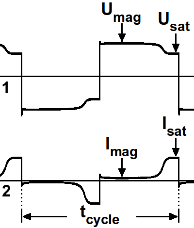 Referring to File:Reactor measurement setup.png this graph was produced with an oscilloscope and later edited with Gimp and Kolourpaint for improved visual clarity. The measurements were conducted on March 2010. Measured ring core: Vacuumschmelze T60006-E4012-W464 26 turns of wire Series resistor R1 = 100 𝛀 Period time of one complete cycle tcycle = 16.25 𝛍s Voltage during magnetization Umag = 10.62 V Voltage during saturated state Usat = 7.31 V Current during magnetization Imag = 6.5 mA Current during saturated state Isat = 73.4 mA